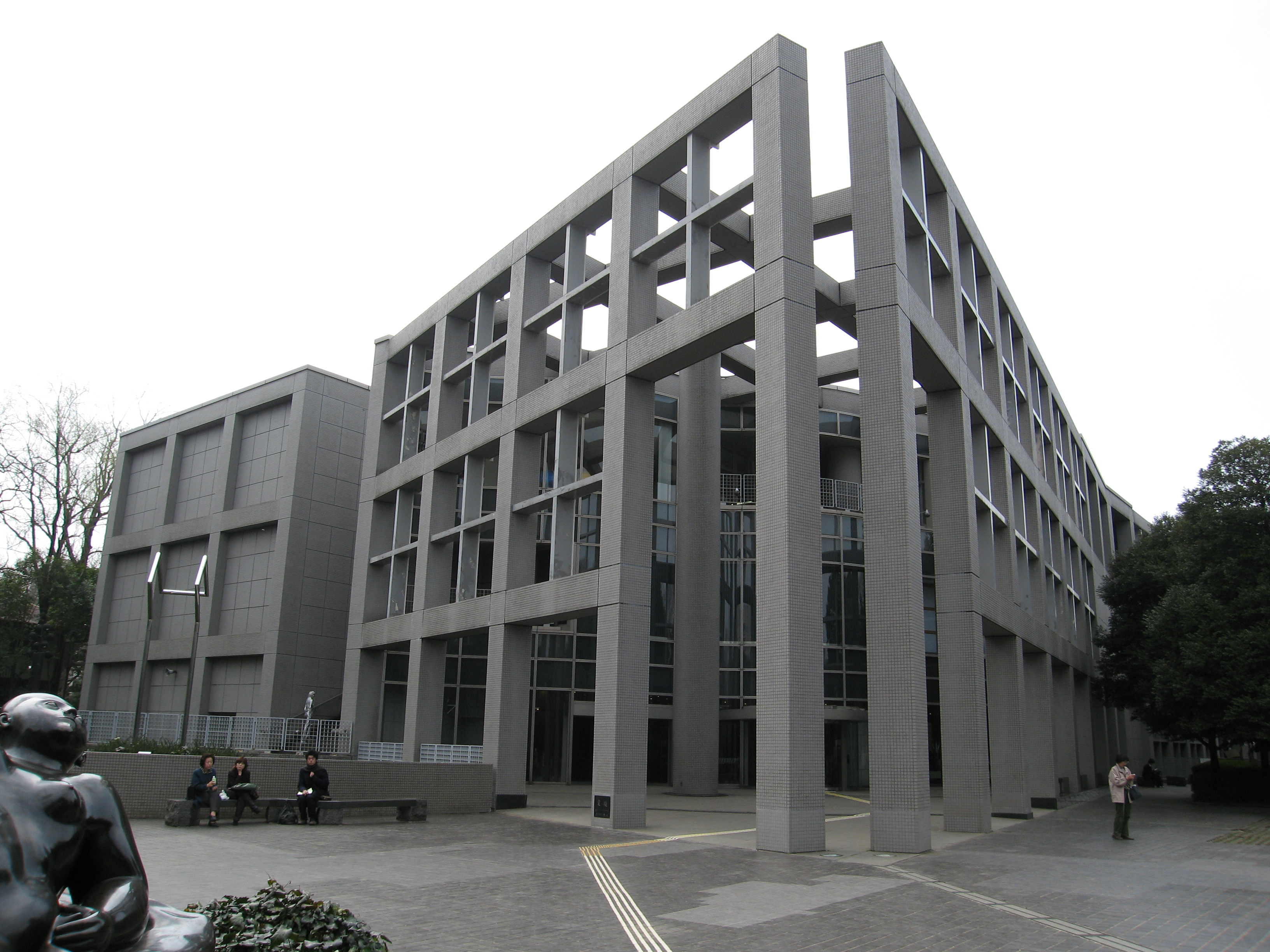 "The Museum of Modern Art, Saitama" (Kisho Kurokawa 1982) at Saitama, Japan